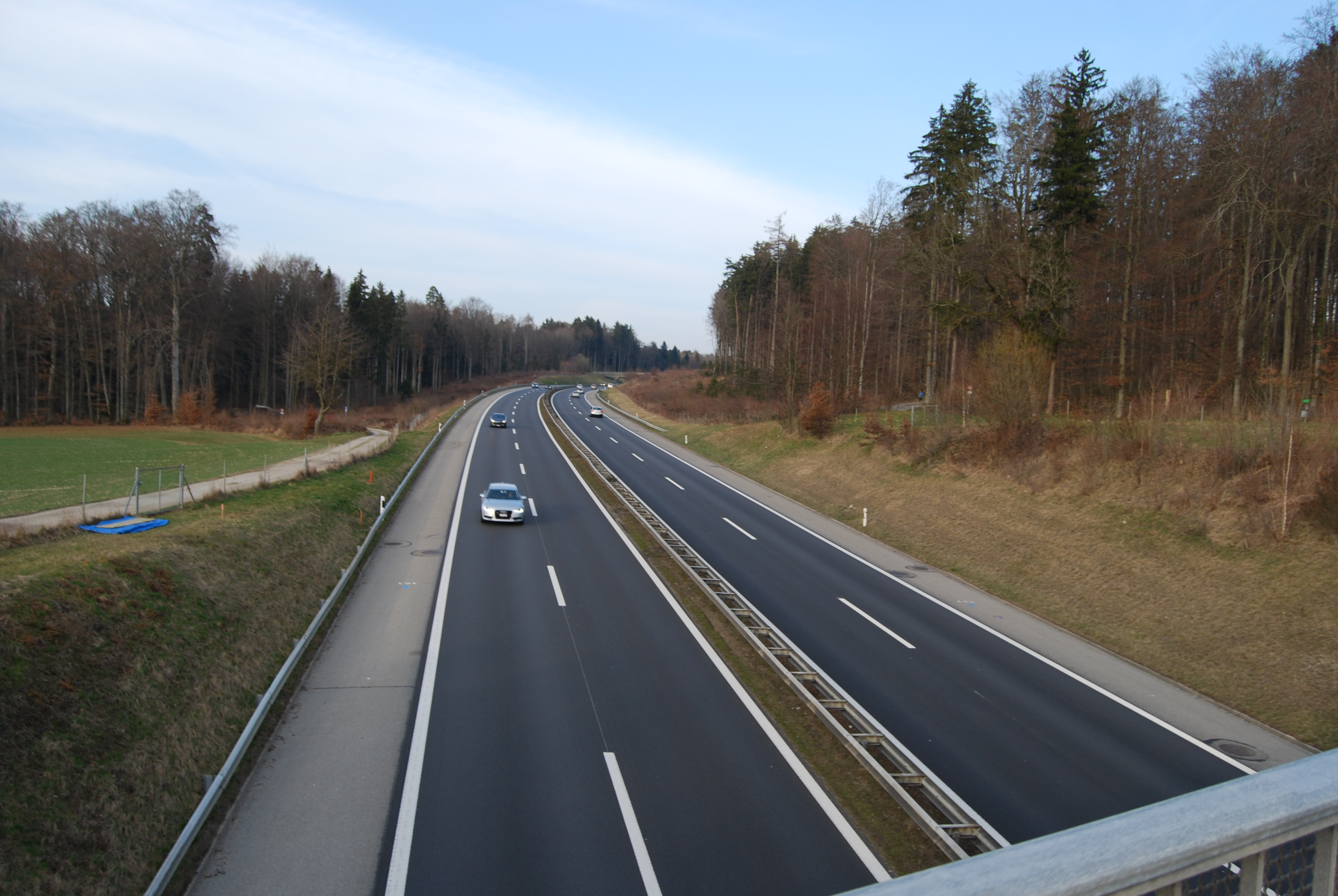 Swiss Highway A12 at Villars-sur-Glâne, canton of Fribourg, Switzerland